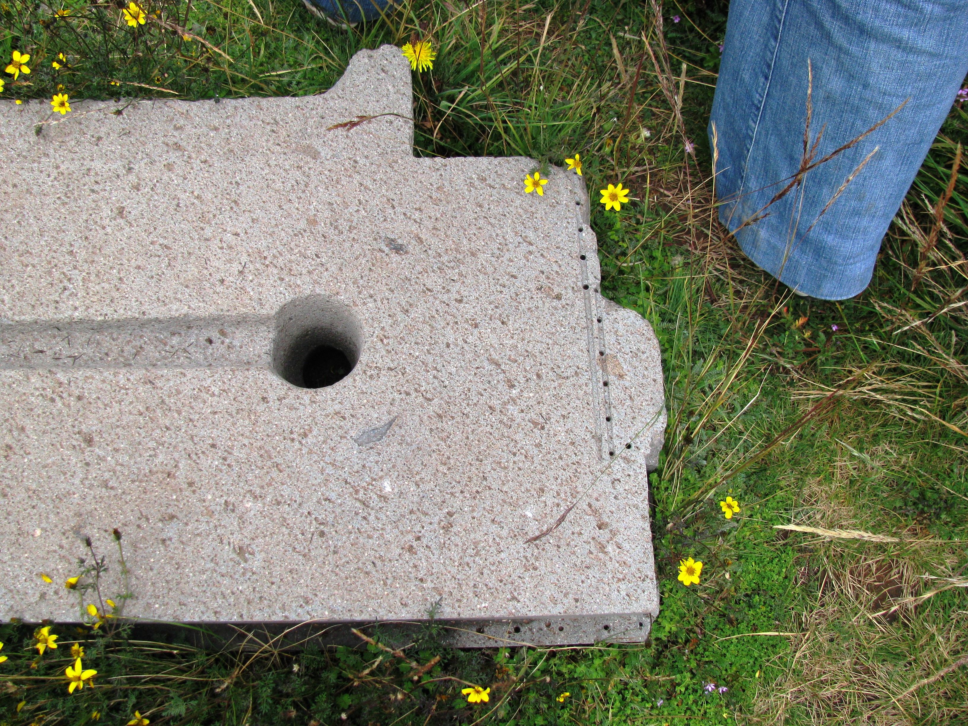 Puma Punku